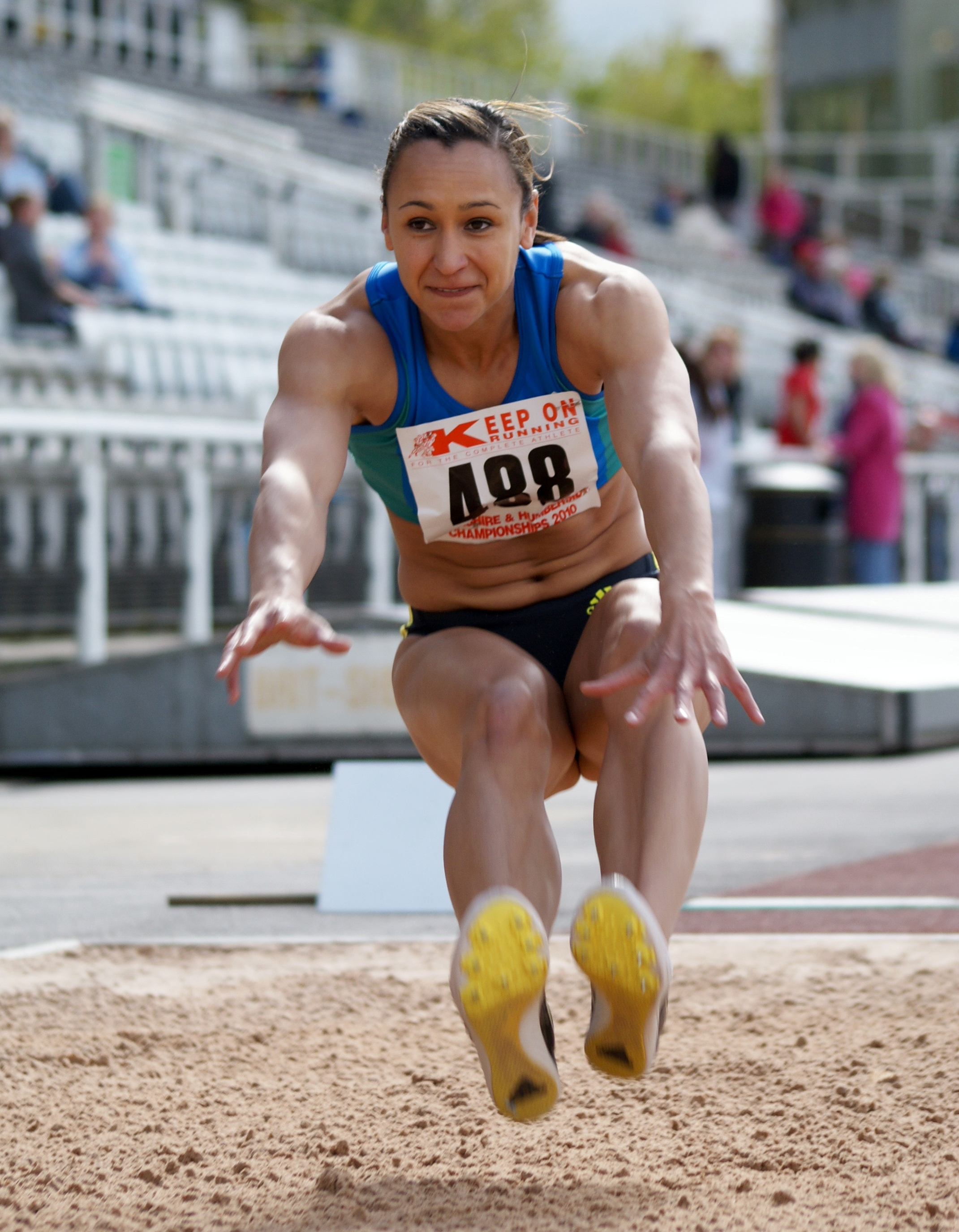 Jess Ennis - Yorkshire Track and Field Championships